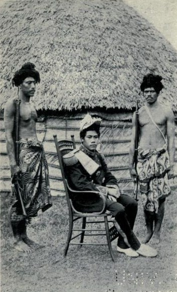 Malietoa Tanumafili from 1911 book